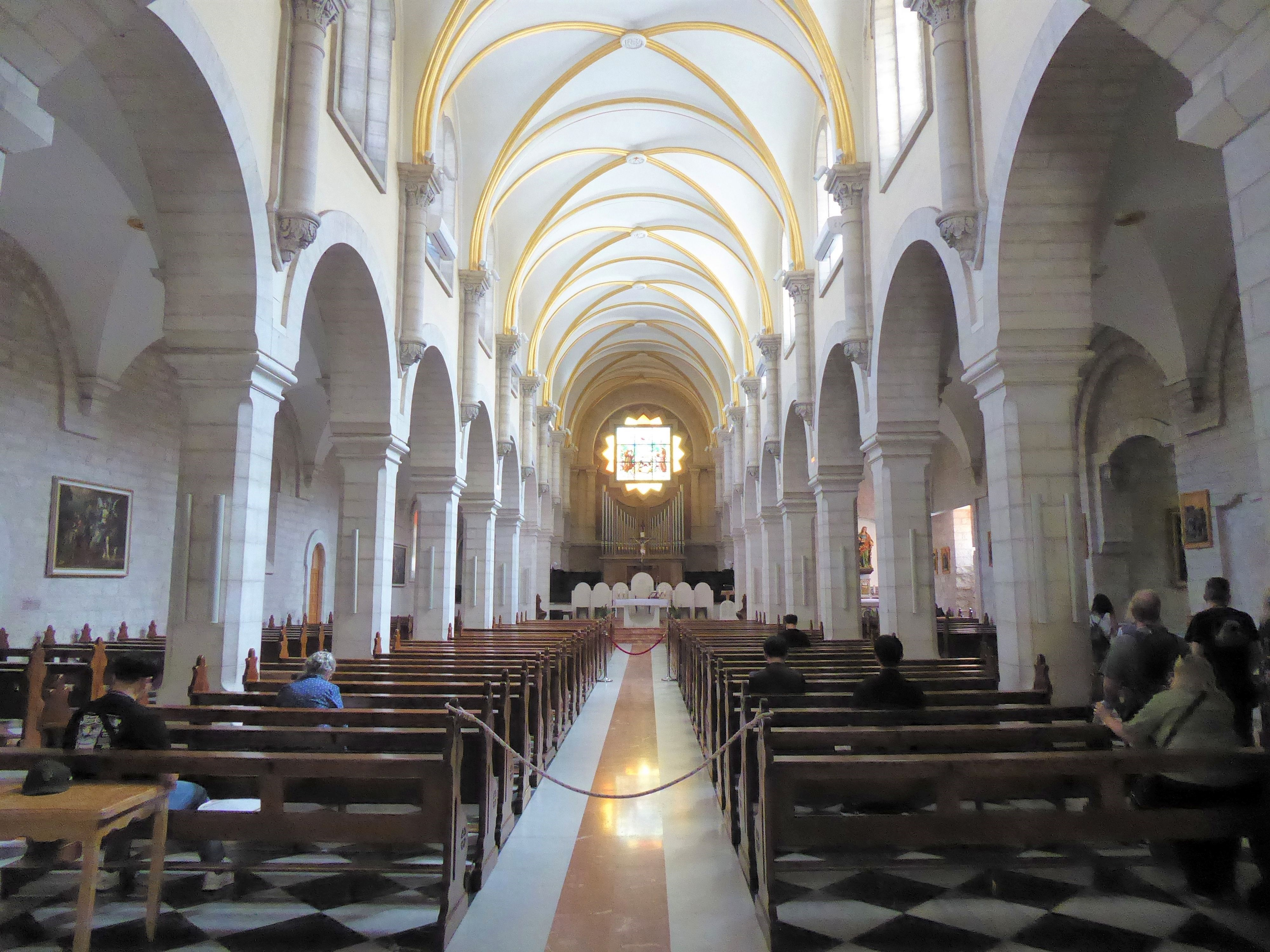 Church of Saint Catherine of Alexandria at the Basilica of the Nativity-interior